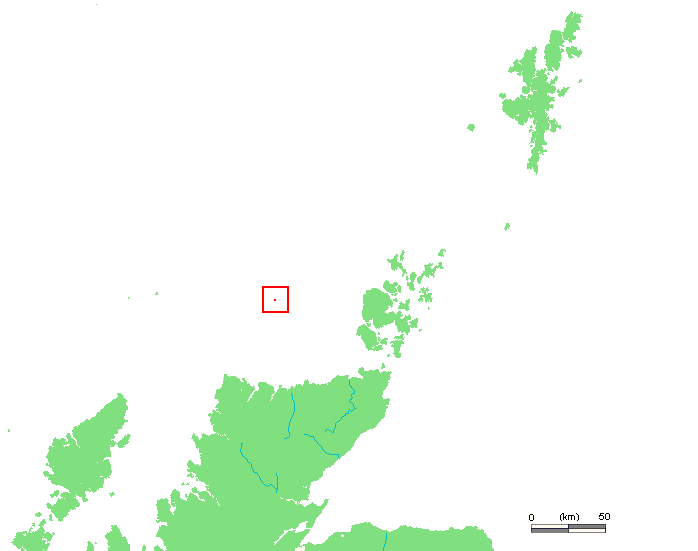 Location of Sule Skerry, UK